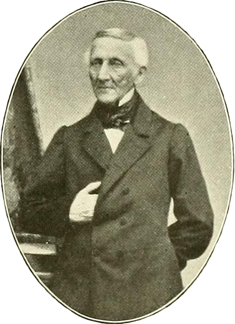 Portrait of the botanish Dietrich Franz L. von Schlechtendal